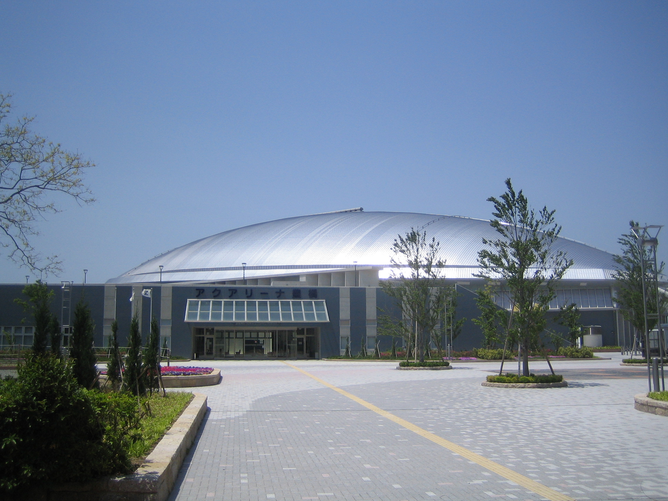 アクアリーナ豊橋。愛知県豊橋市 Aquarena Toyohashi (アクアリーナ豊橋), located in Toyohashi, Aichi, Japan